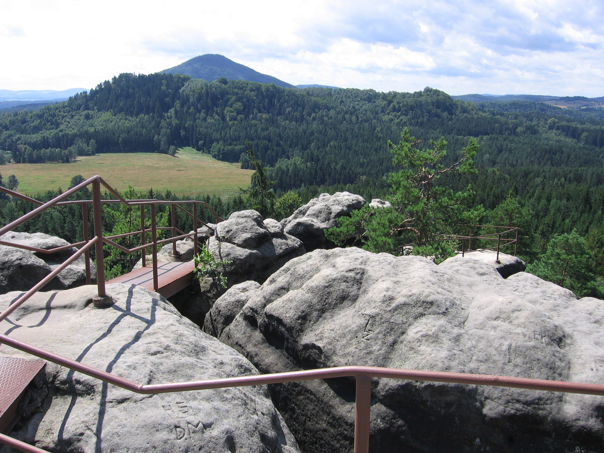 Rock Castle Šaunštejn - view from the top (National Park Bohemian Switzerland, Ústí nad Labem Region, Czech Republic)